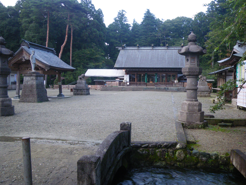 The worship hall of Nogi Shrine, statue of Nogi Maresuke, and Hikinuma-yōsui aqueduct. Nasushiobara, Tochigi, Japan.